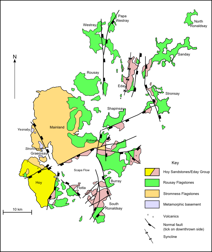 Sketch geological map of Orkney taken from various sources including published BGS maps